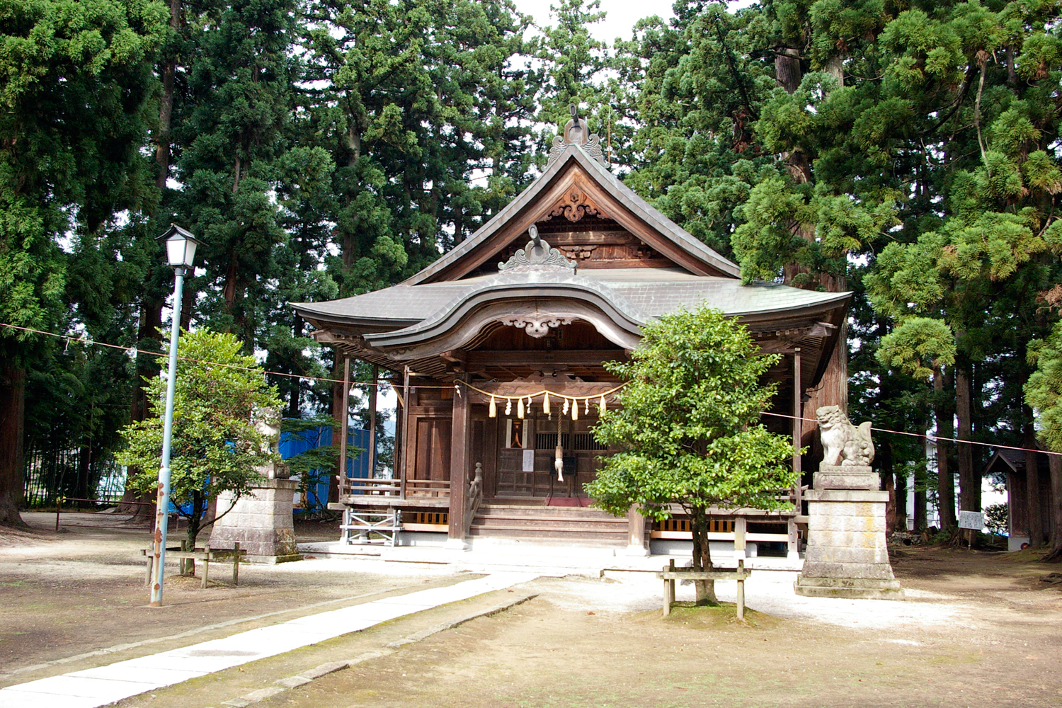 Uonuma Shrine